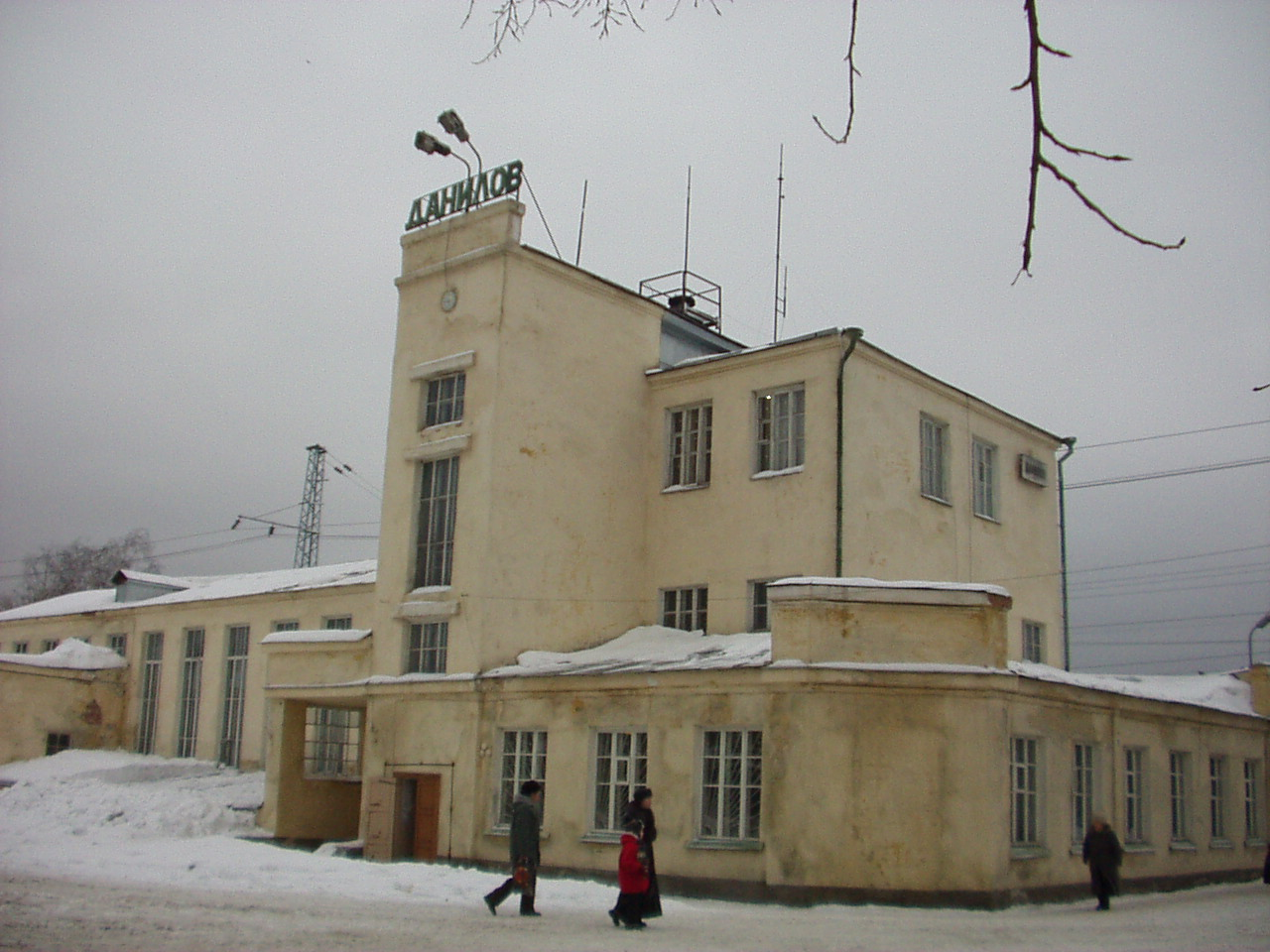 Danilov railway station, Yaroslavskaya oblast